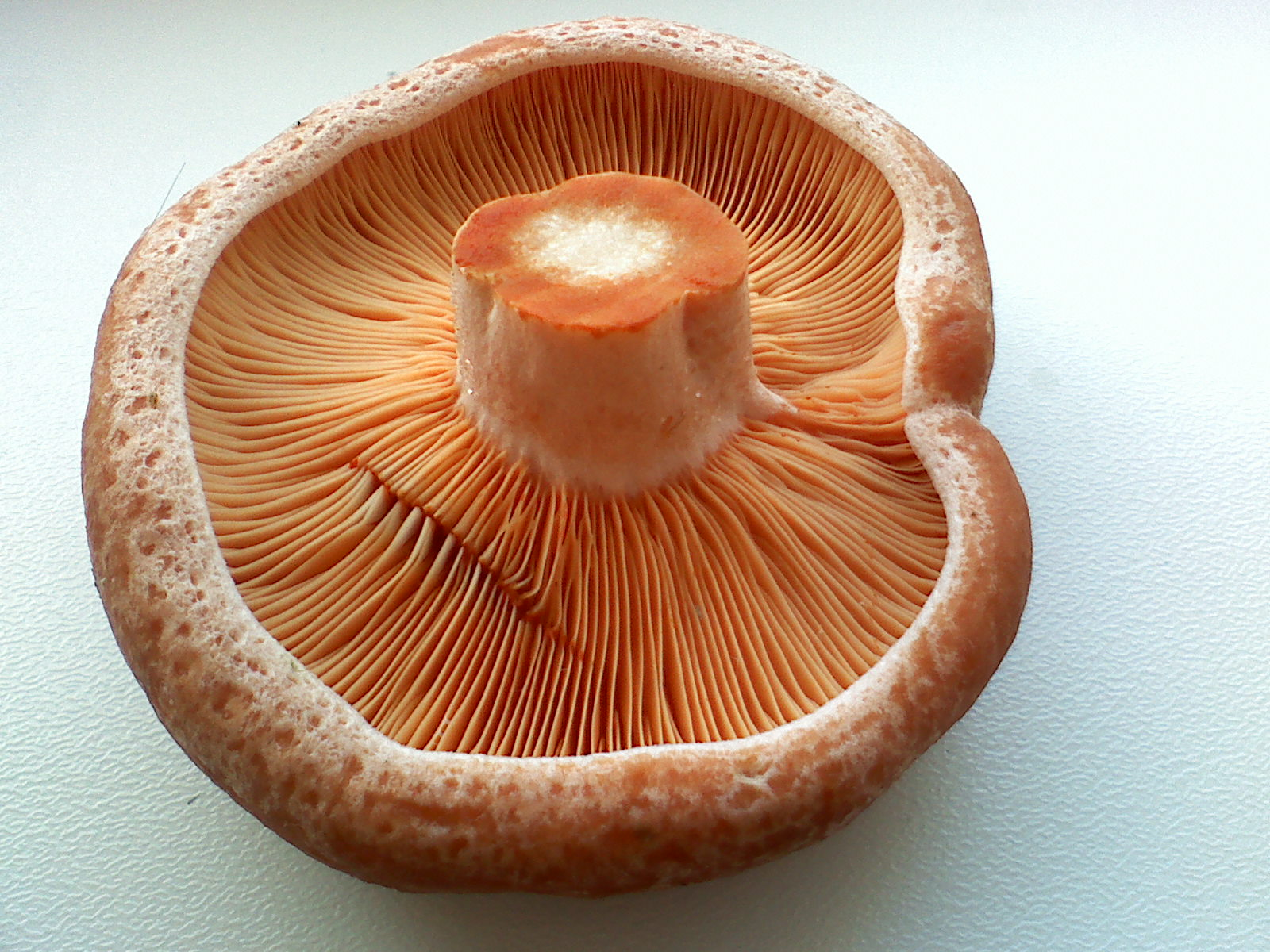 Lactarius deliciosus